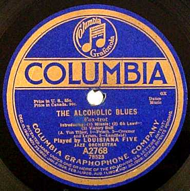 Louisiana Five - The Alcoholic Blues (Columbia, ca. 1919)